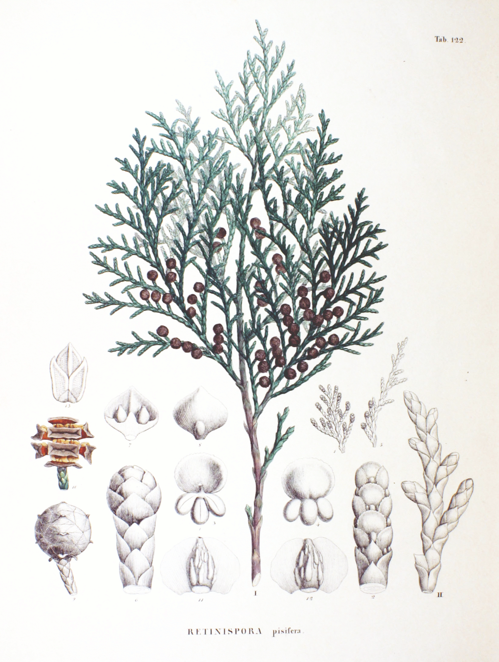 Plate from book